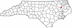 Category:North Carolina Dot Maps